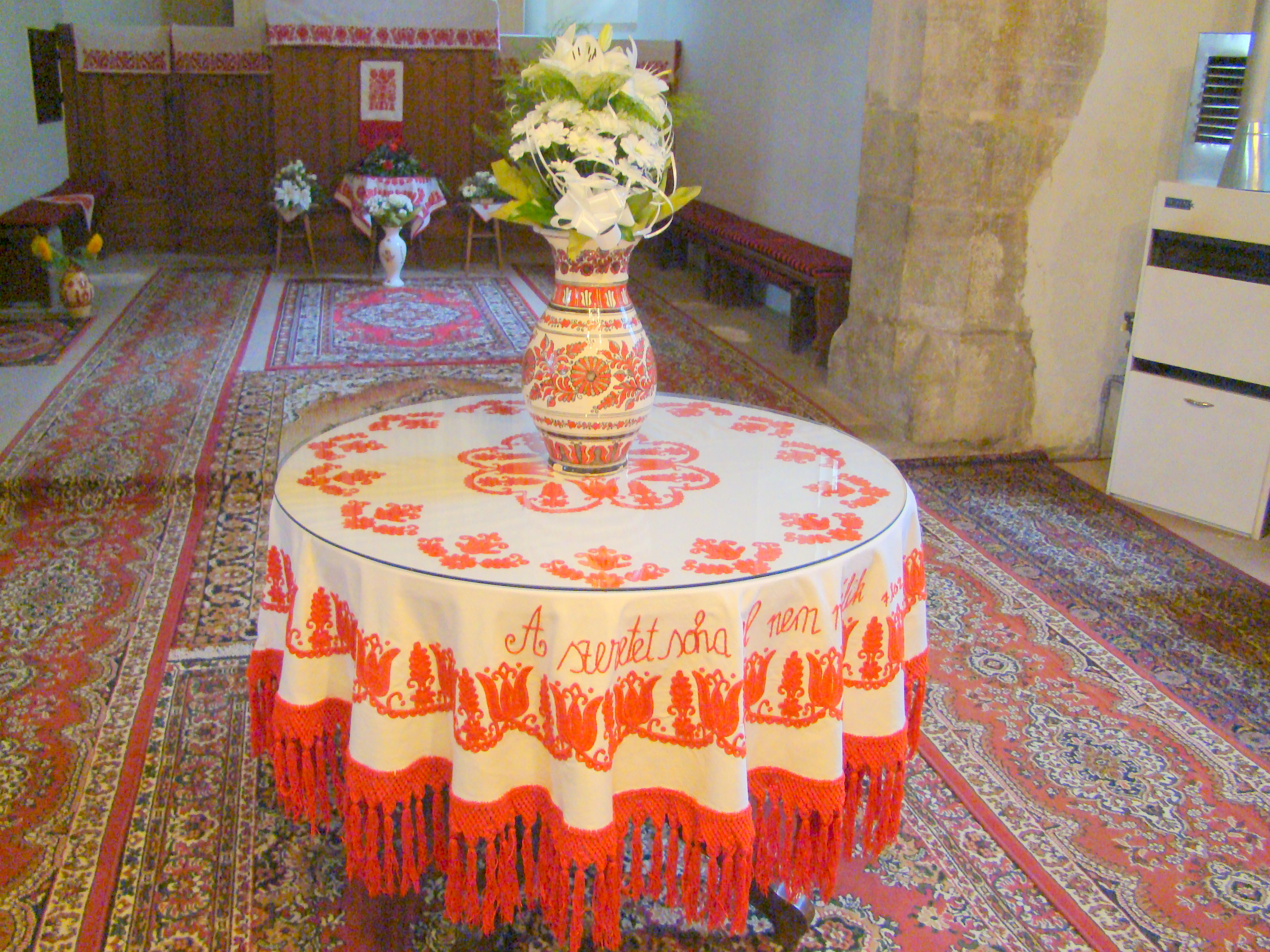 Reformed church in Gornești, Mureș county, Romania